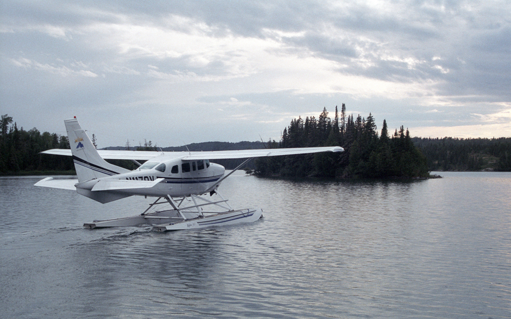 Seaplane taking off from Windigo, Isle Royale National Park, MI.